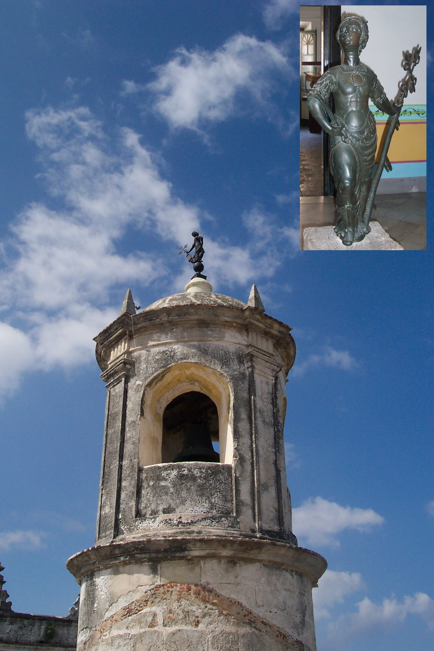 La Giraldilla on the watchtower of Castillo de la Real Fuerza in Havana, plus detail of original